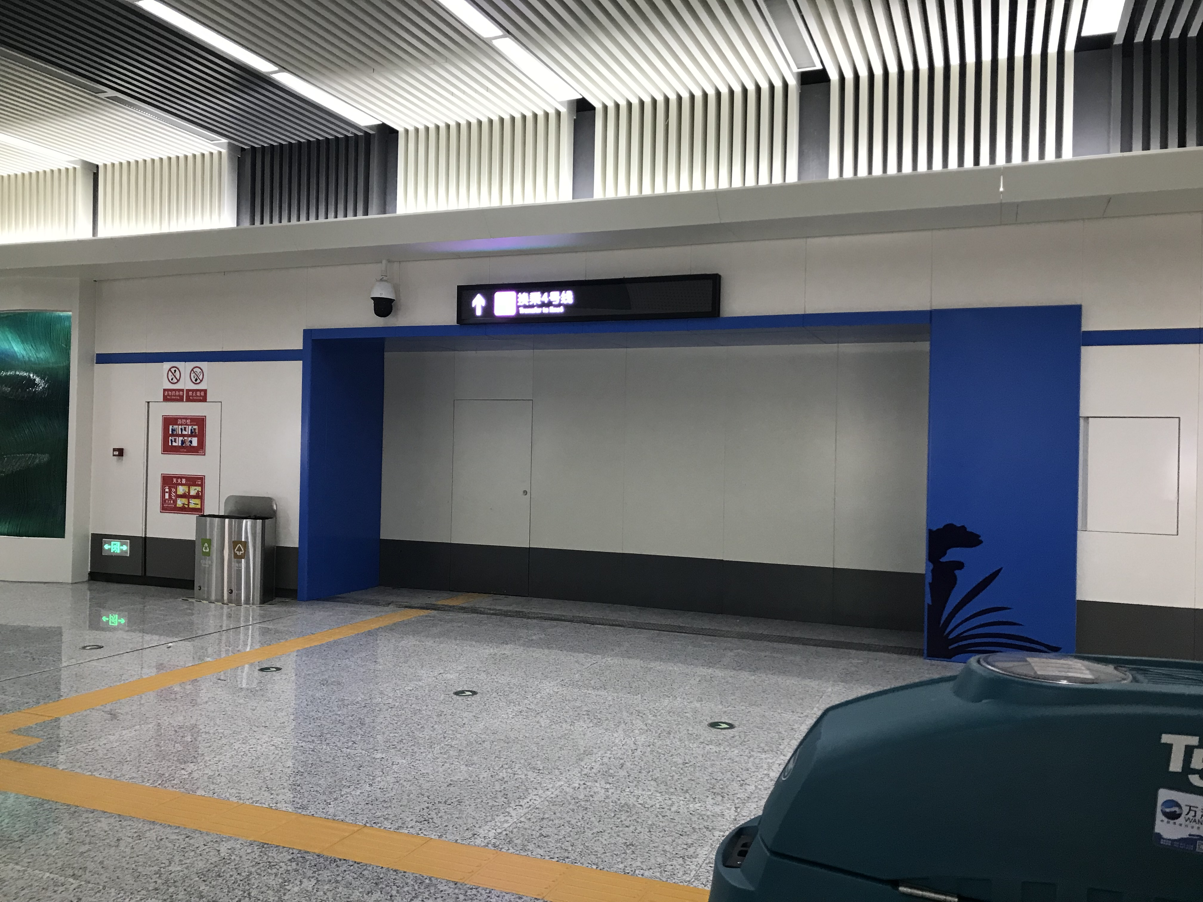 Jilin Avenue Station - Transfer Passage (Reserved)